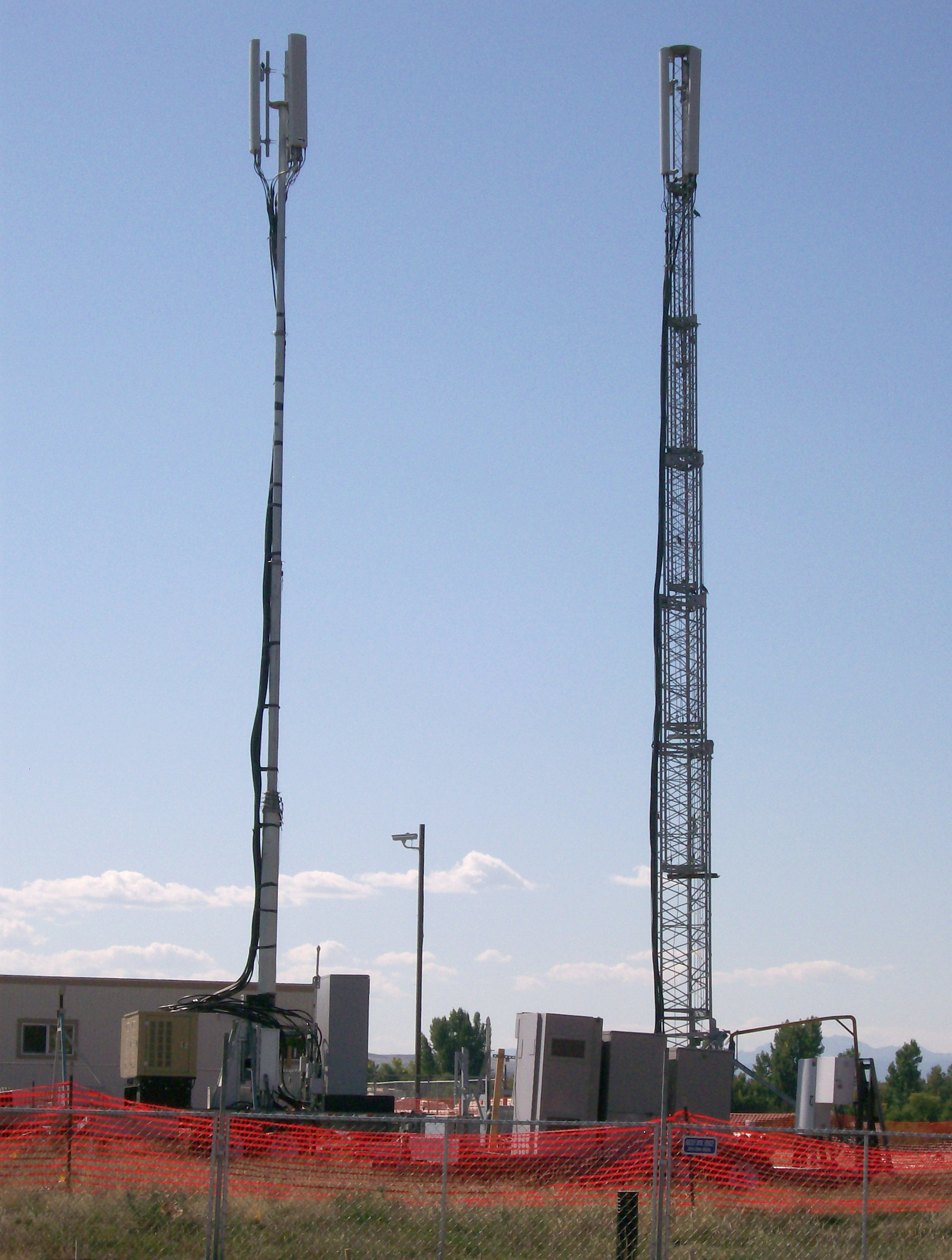 A pair of temporary cellular telephone sites, also called a Cell-on-wheels or COW. This one is providing service to parts of Denver, Colorado, USA, while the permanent site is under construction. A generator can be seen to the left. The Cell Site was previously on a water tower, which is now demolished. It has recently been relocated across the street to a permanent tower.